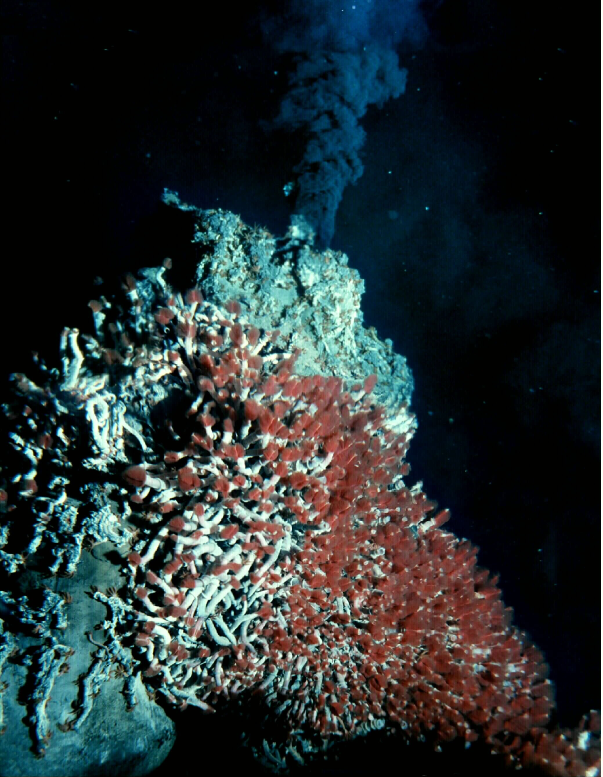 A black smoker community comprised of giant red tubeworms and hundreds of squat lobsters. This vent is located in Strawberry Fields of the Main Endeavour hydrothermal field on the Juan de Fuca Ridge. Vibrant colonies of tube worms with red gills thrive on this vent which is predominantly composed of iron- and sulfur-bearing minerals.